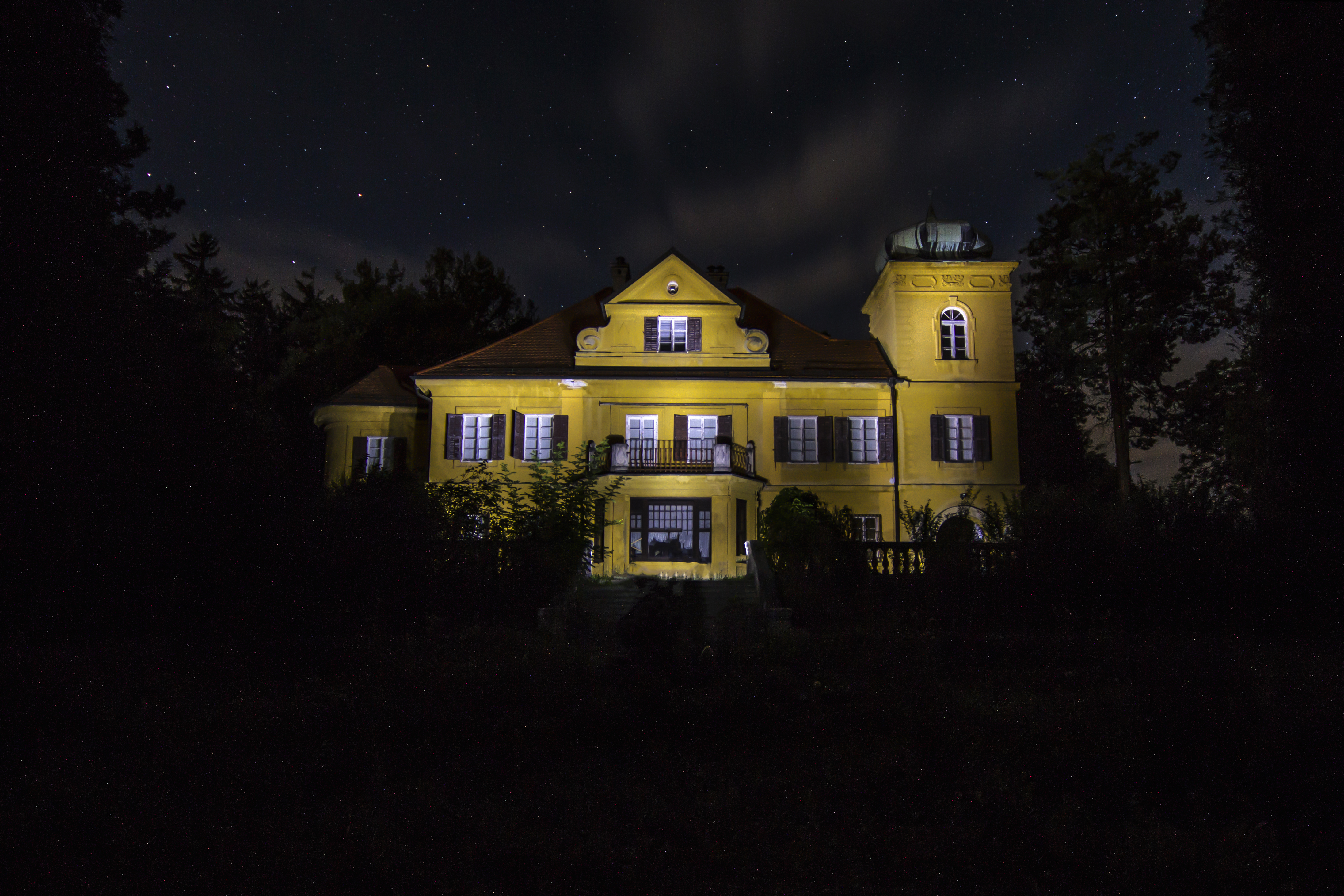 An old mansion in Šoštanj This media shows a cultural heritage object of Slovenia with the EŠD number: 4333